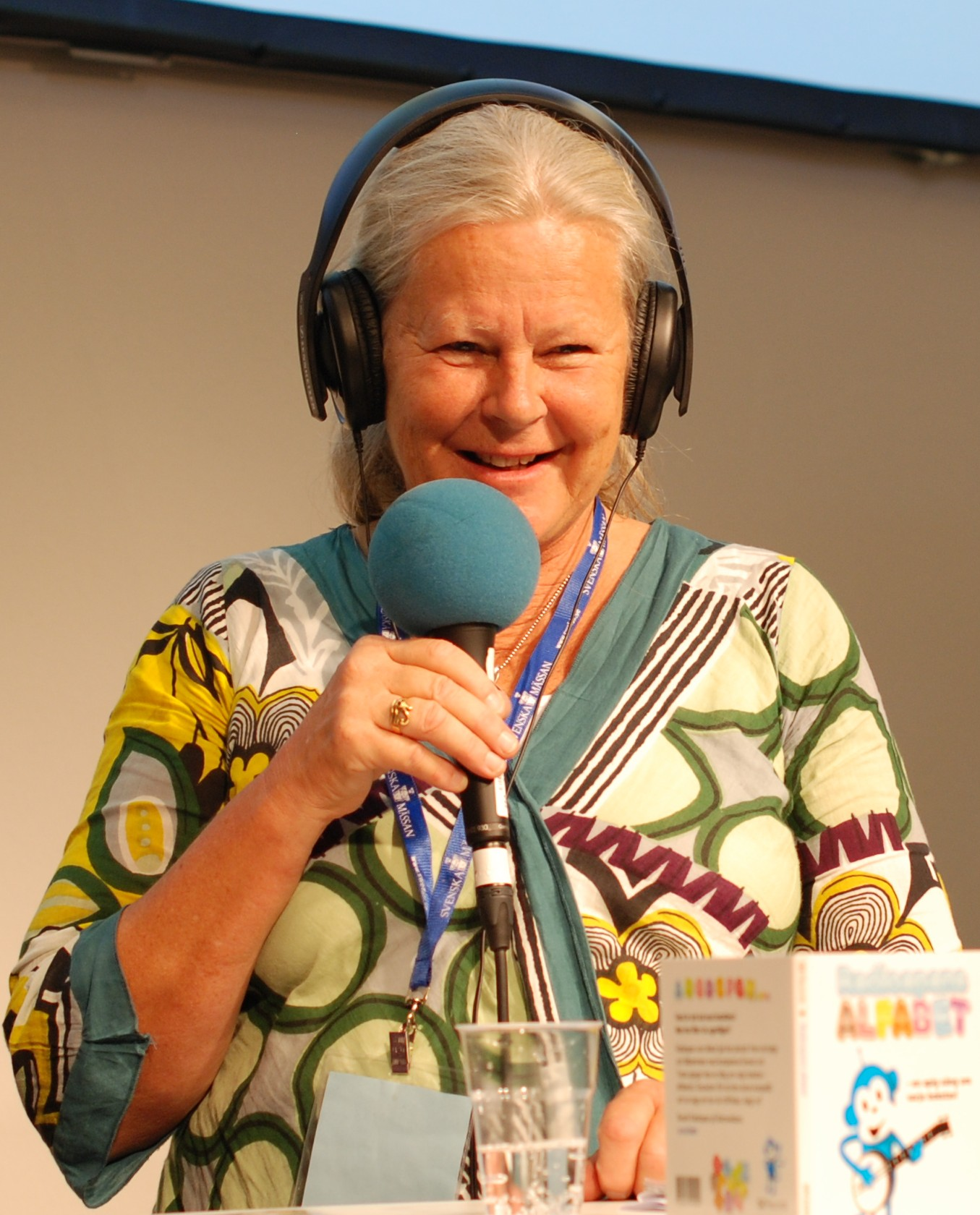 Swedish radio journalist Inga Rexed at the Göteborg Book Fair 2010